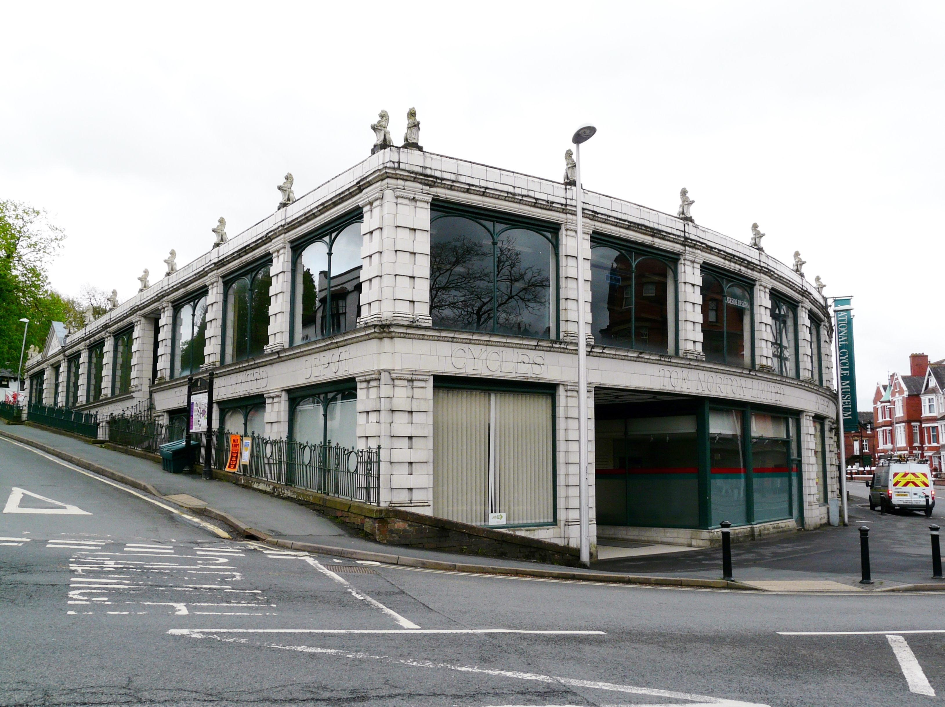 The Automobile Palace Wikidata has entry Q17739218 with data related to this building.